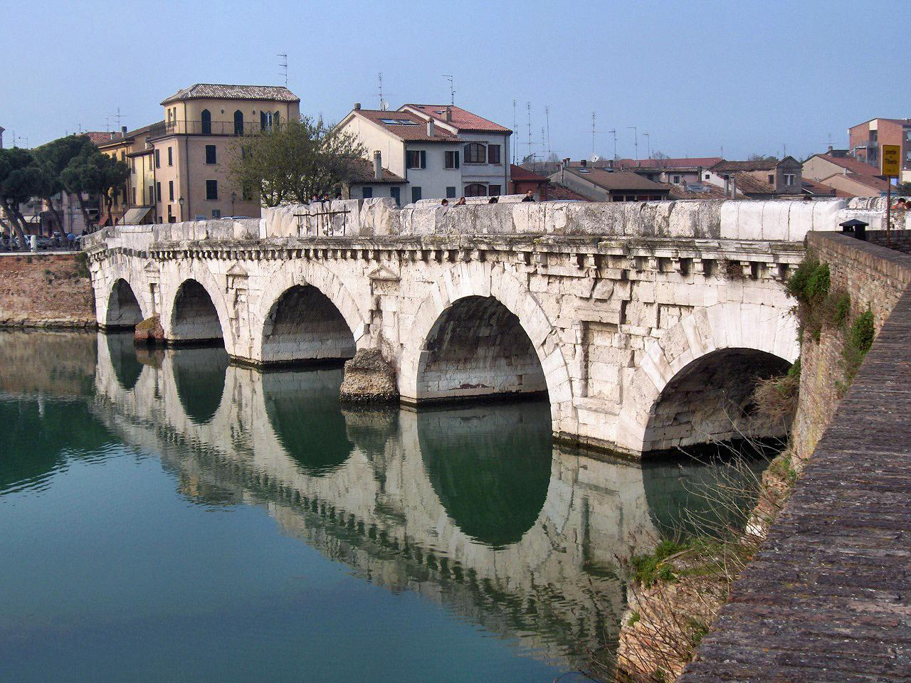 Bridge of Tiberius (14 AD - 21 AD), Rimini, Italy